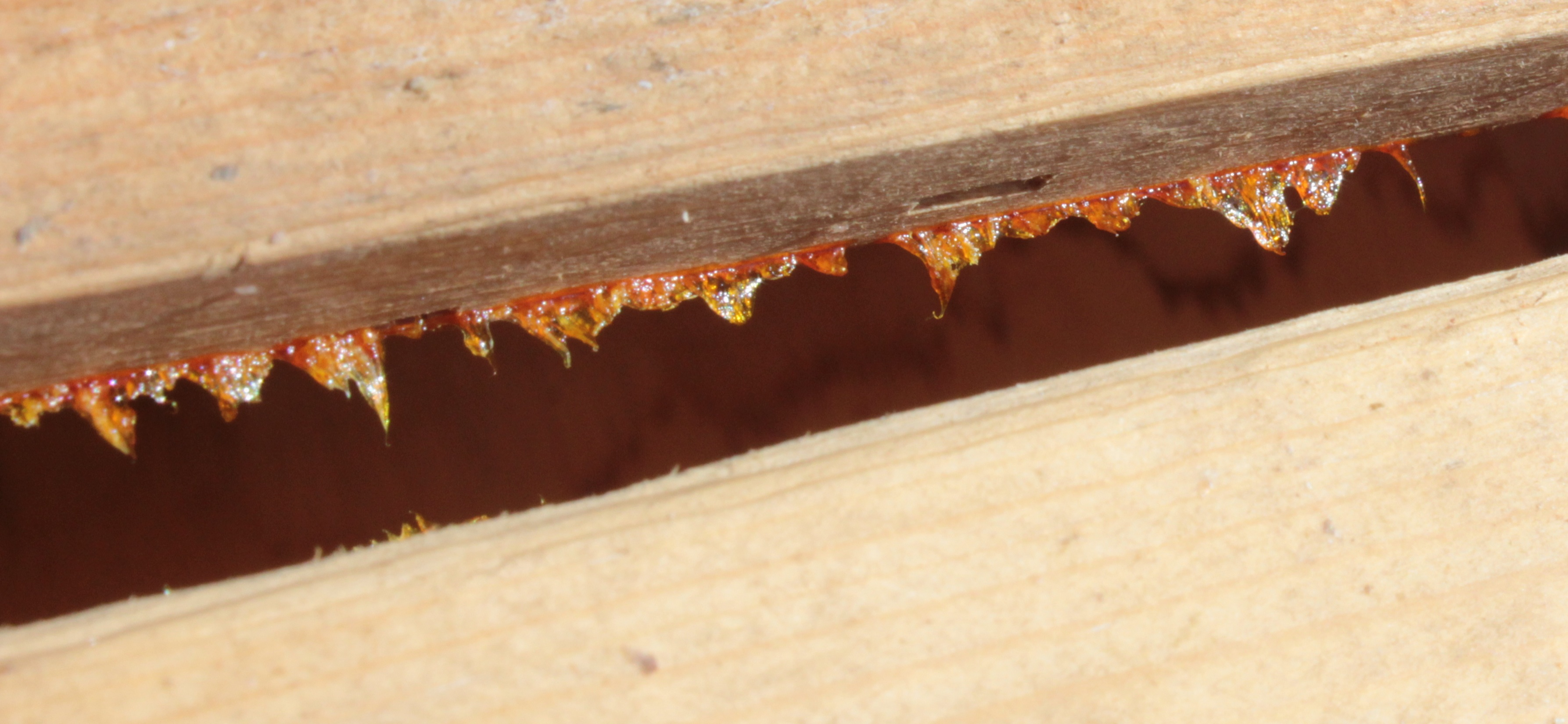 Two bars of an active top bar hive with the bars pulled apart. Notice the sticky golden propolis on the above bar.